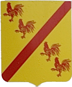 Engis (Belgium) Coats of arms of the town of Engis - Photo taken on a signpost in front of Engis Town Hall Blason d'Engis, photo prise sur un poteau en face de la maison communale Escut d'Engis, foto presa davant la casa de la vila Wapenschild van Engis, foto genomen op een signalisatiepaal voor het gemeentehuis